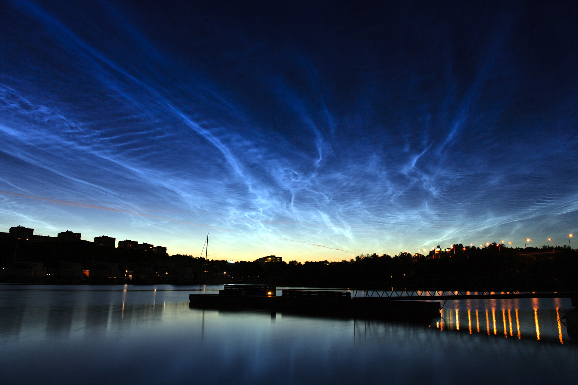 Noctilucent clouds over Stockholm. From this year, you can see very often and easily the noctilucent clouds over Stockholm city. Maybe, partially because of the global warming effect.